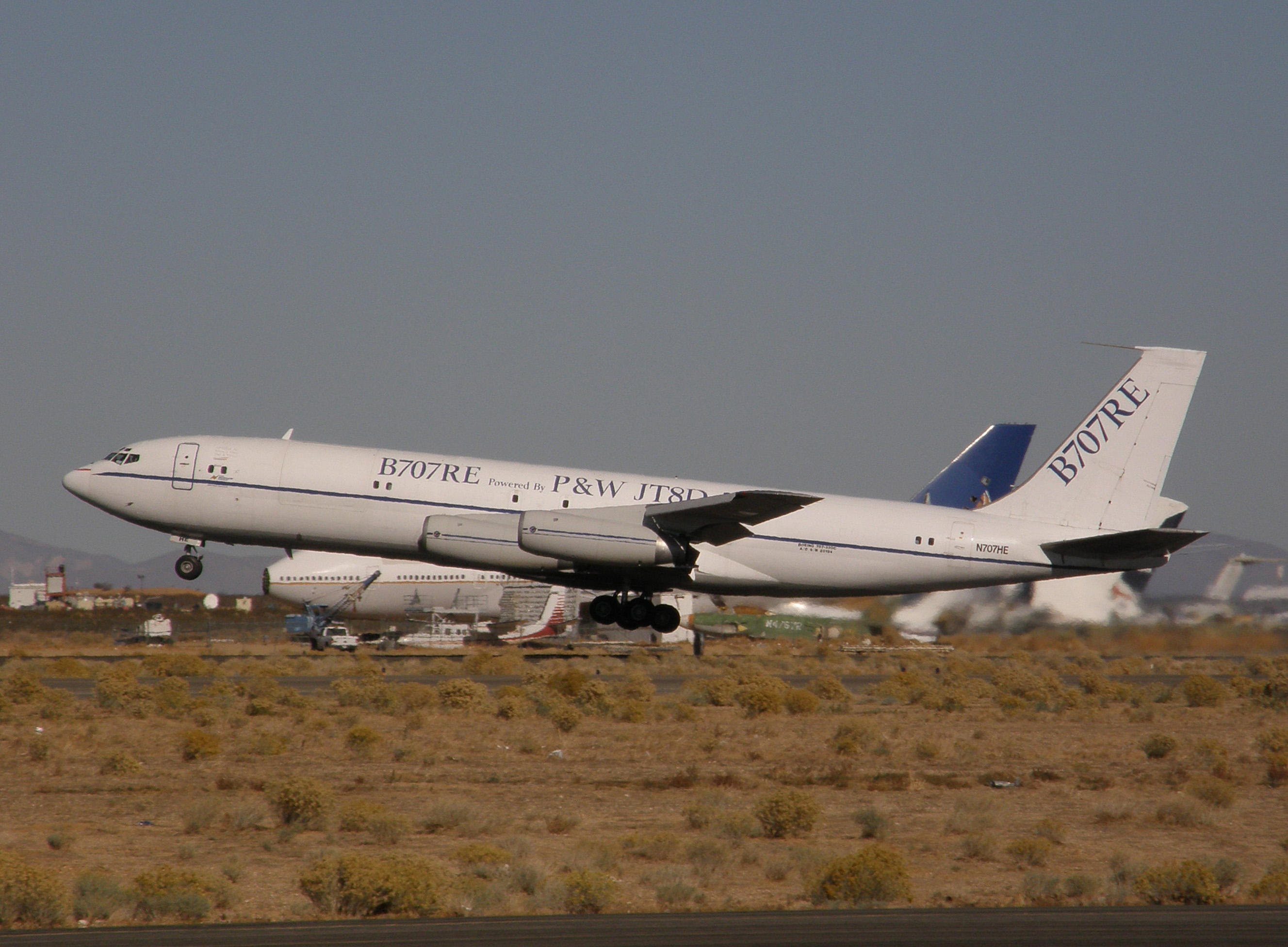 Omega Air 707-330C N707HE, the flight test aircraft for the Seven Q Seven program to modify Boeing 707 aircraft with Pratt & Whitney JT8D-219 turbofan engines, takes off from Mojave Airport